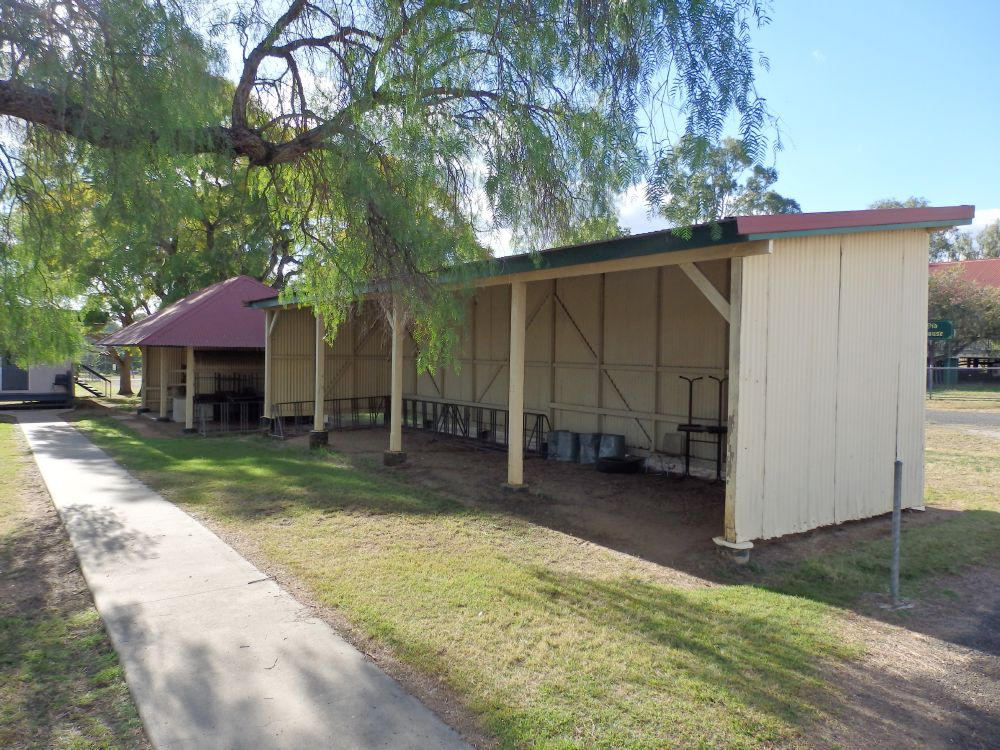 Playshed and Blacksmith's Shop (former), from E (2015)